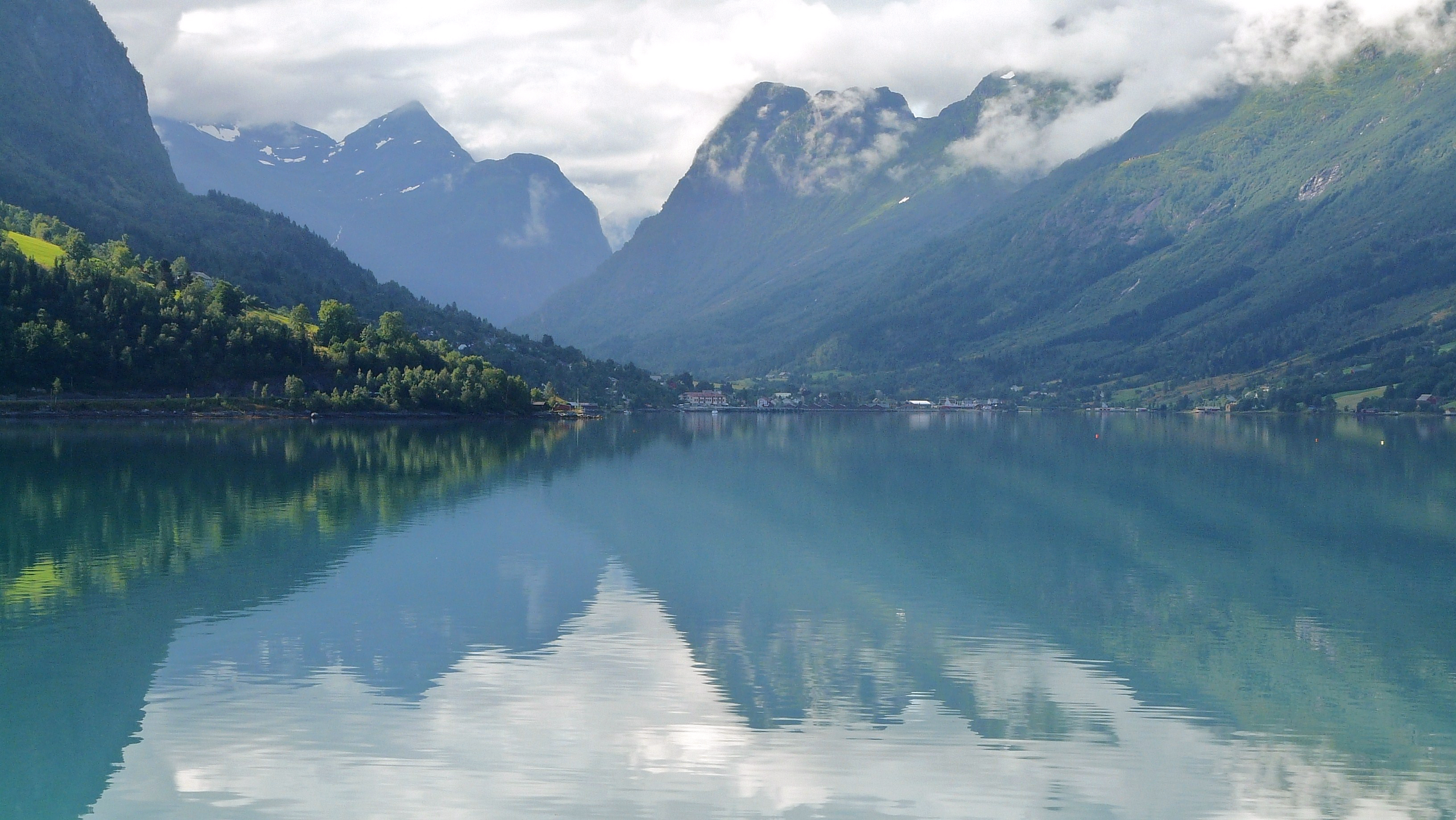 Oldedalen and Oldebukta as seen from the opposite coast of Nordfjord in 2008 August.